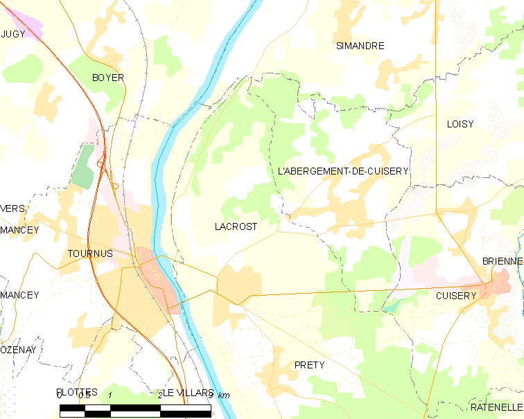 Map of French municipality